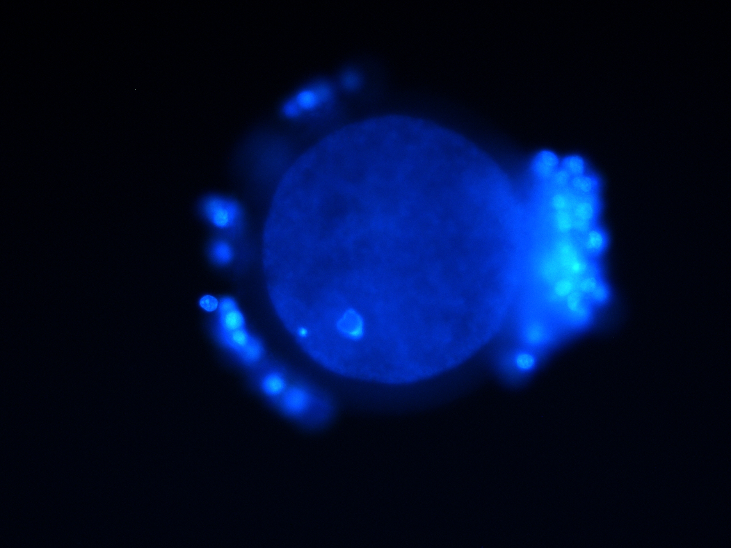 A pig oocyte taken from a young animal from a slaughterhouse. It is surrounded by small granulosa cells (most of them were removed). Colored with DAPI. Fluorescence microscopy. Objective lens 40x.